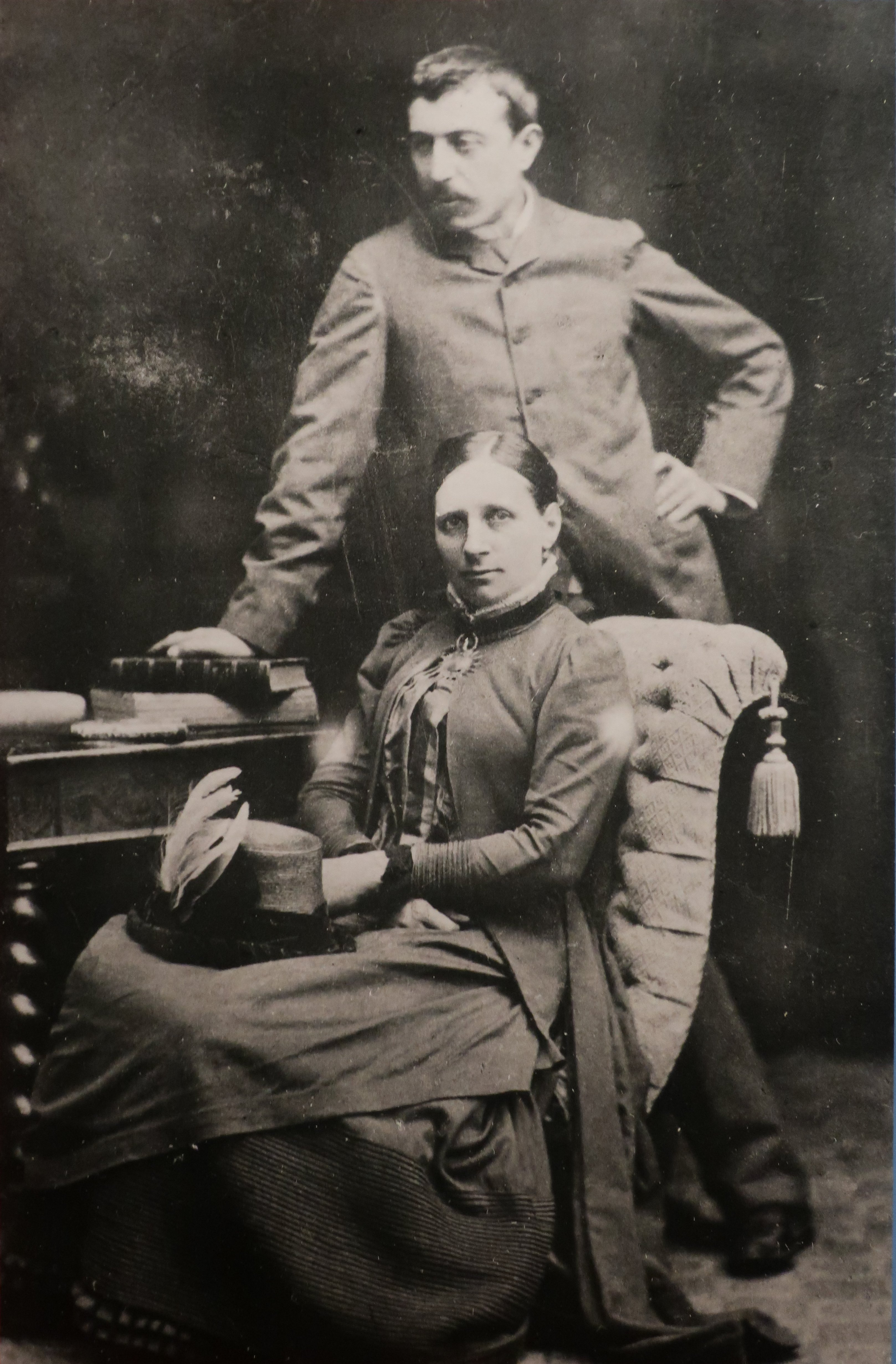 Paul Gauguin and Mette Sophie Gad by Julie Laurberg, 1885, photograph, Royal Danish Library, Copenhagen